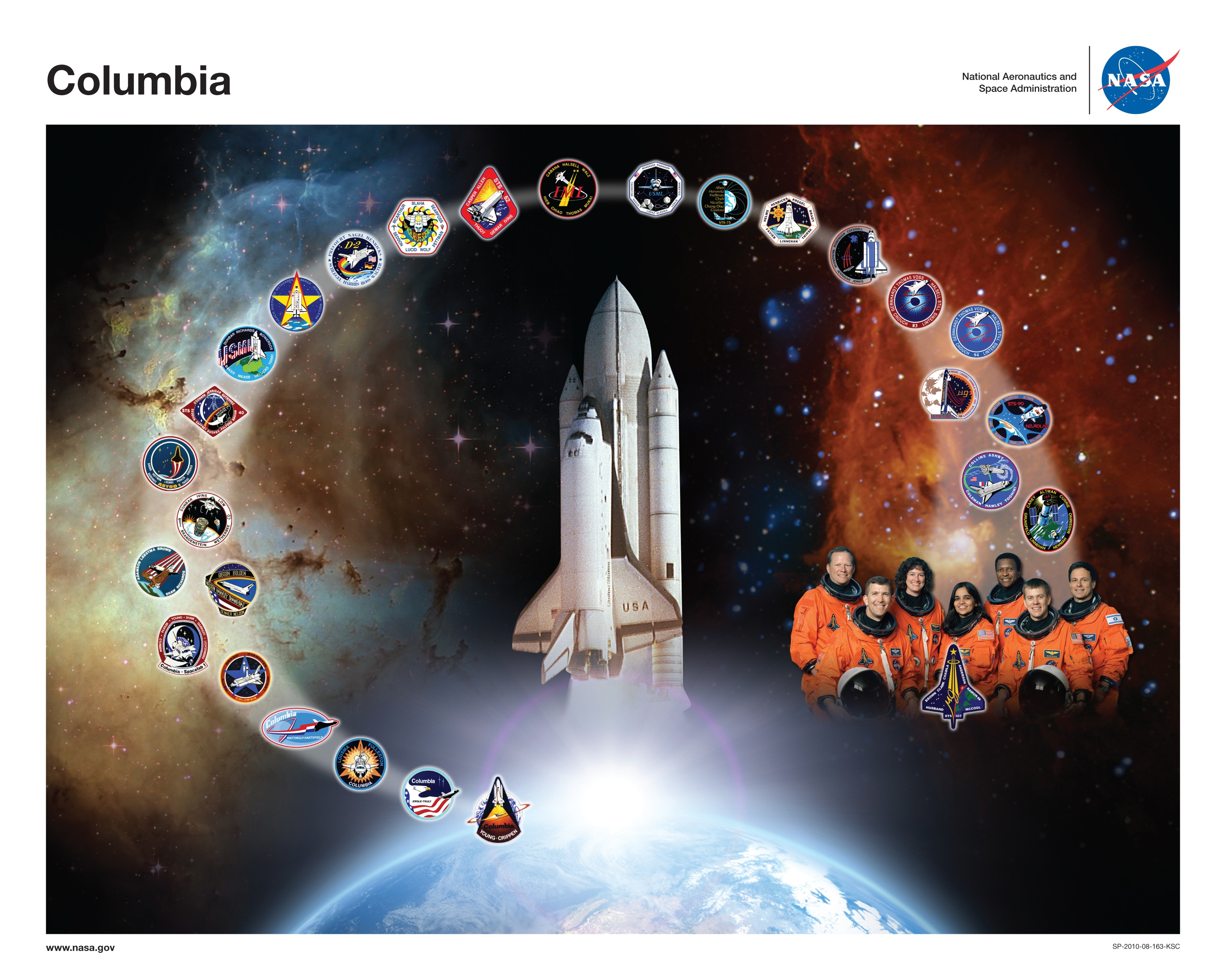 This is a printable version of space shuttle Columbia's orbiter tribute, or OV-102, which hangs in Firing Room 4 of the Launch Control Center at NASA's Kennedy Space Center in Florida. The tribute features Columbia, the “first of the fleet," rising above Earth at the dawn of the Space Shuttle Program. Columbia's accomplishments include the launch and deployment of NASA's Chandra X-ray Observatory on STS-93, the first shuttle landing at White Sands Space Harbor in New Mexico on STS-3, the first deployment of commercial satellites and the first four-member crew during STS-5, the first Spacelab mission and first six-member crew on STS-9, the first female commander, Eileen Collins, on STS-93, as well as several laboratory missions with international partners. Crew-designed patches for each of Columbia’s missions lead from Earth toward a remembrance of the STS-107 crew, which was lost during re-entry on Feb. 1, 2003. Five orbiter tributes are on display in the firing room, representing Atlantis, Challenger, Columbia, Endeavour and Discovery. Graphic design credit: NASA/Amy Lombardo. NASA publication number: SP-2010-08-163-KSC